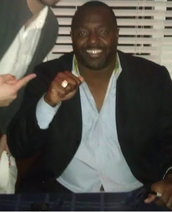 Picture taken by me, Endlessdan, of former New York Giants running back Rodney Hampton on November 17, 2011 in Manasquan, New Jersey.